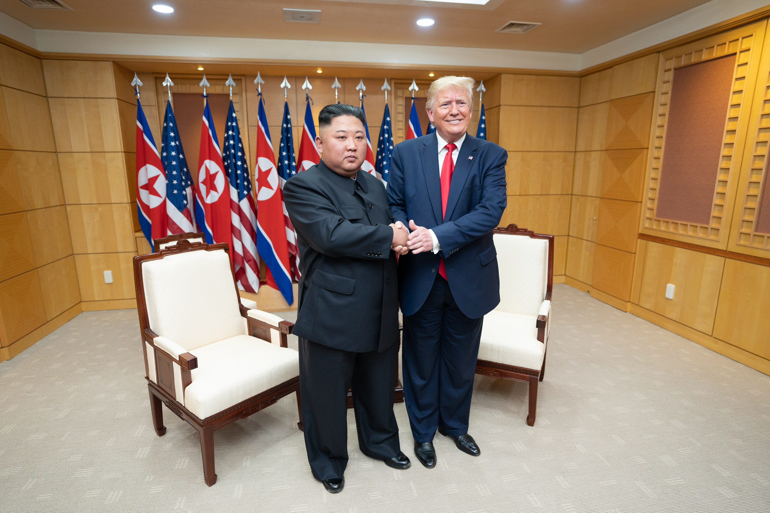 President Donald J. Trump and Chairman of the Workers’ Party of Korea Kim Jong Un speak to reporters Sunday, June 30, 2019, as the two leaders meet in Freedom House at the Korean Demilitarized Zone. (Official White House Photo by Shealah Craighead)